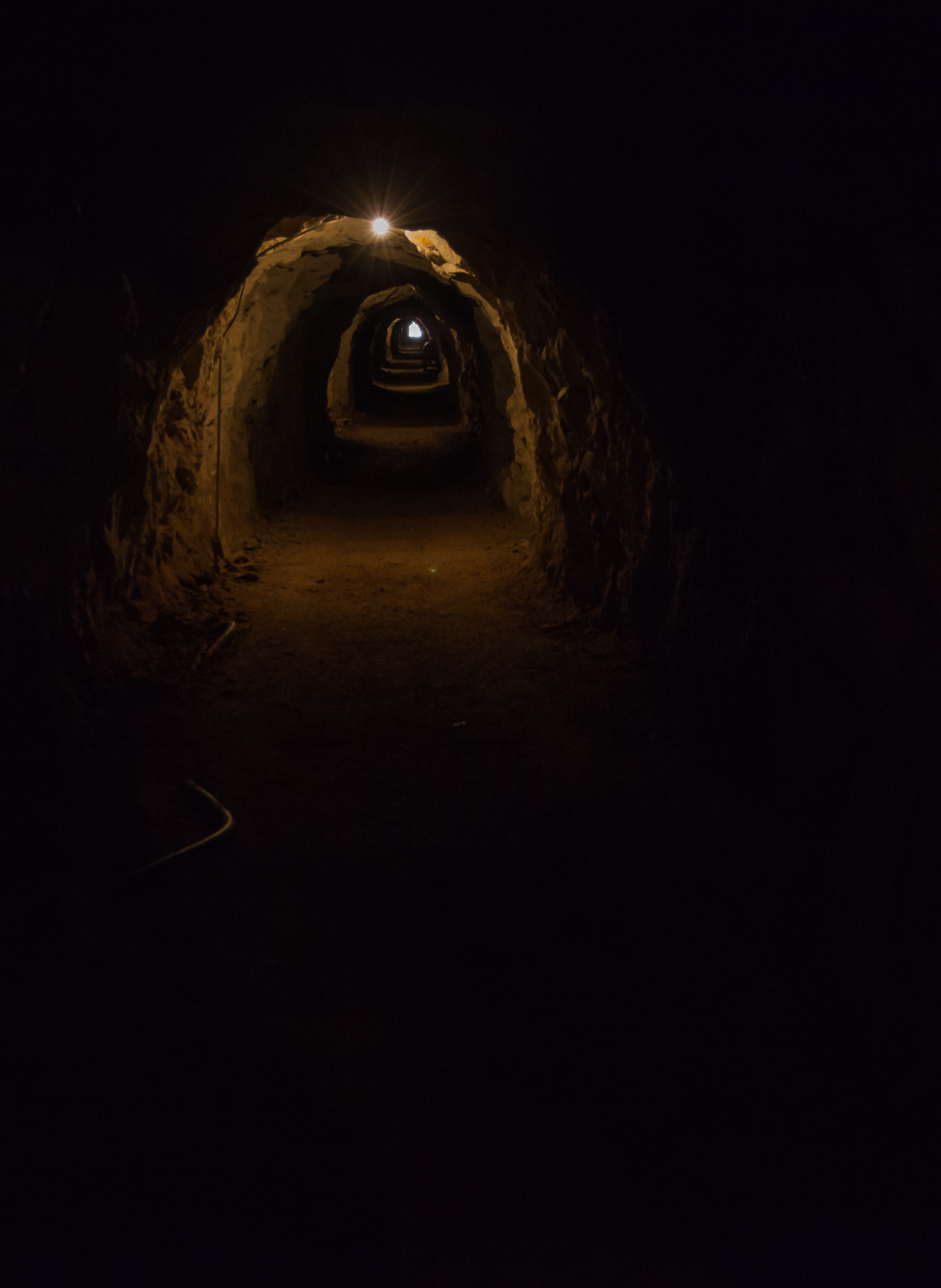 Acosta Mine, Real del Monte, Hidalgo, Mexico